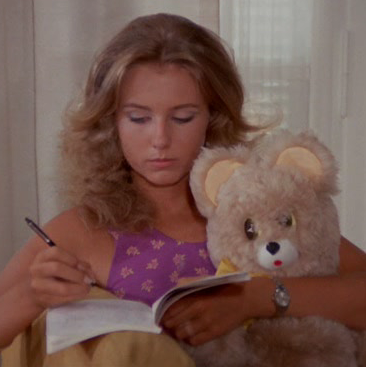 Ely Galleani, screenshot from the film In nome del popolo italiano